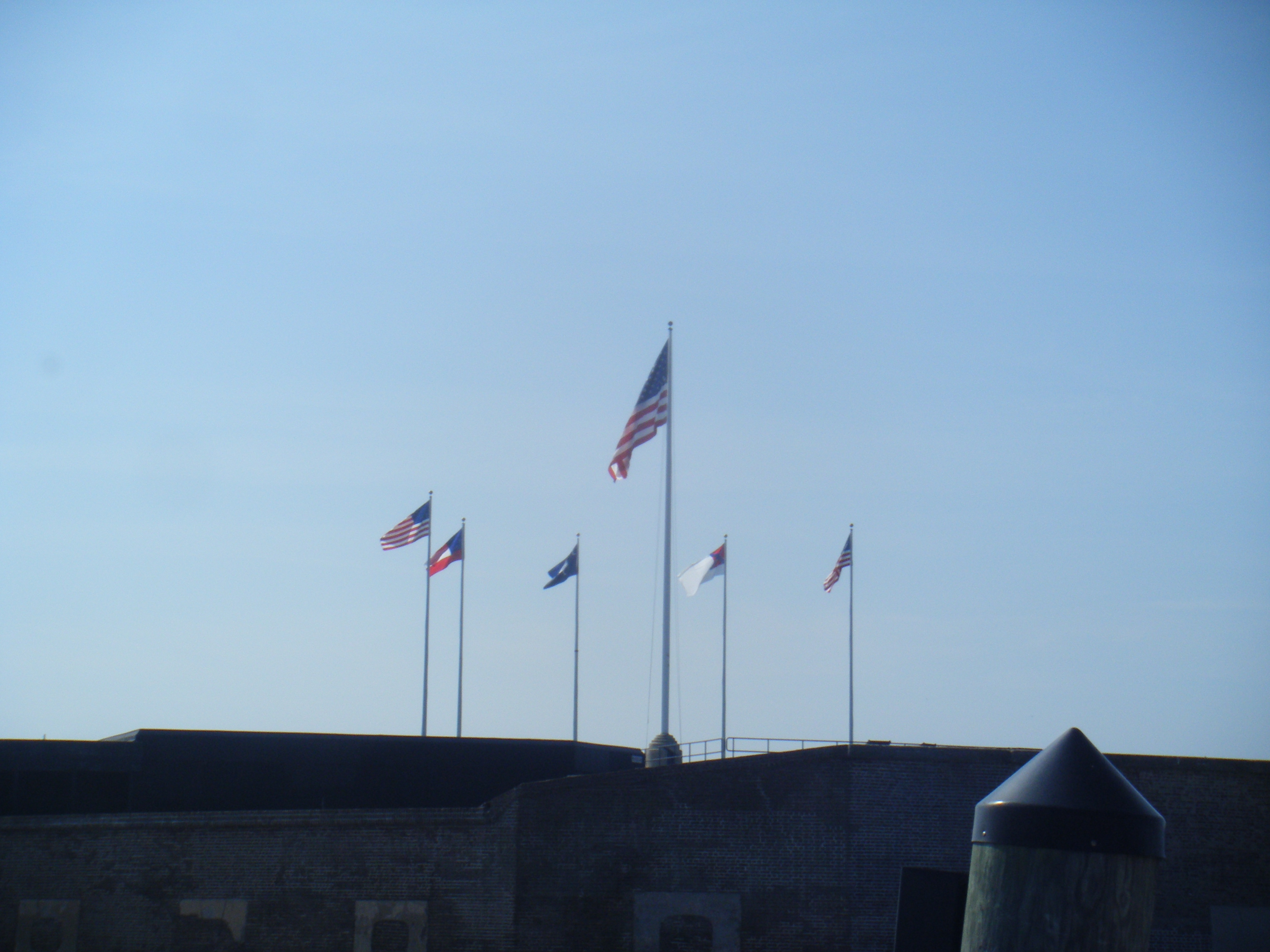 The United States flag, Confederate flag, 1861 US flag, South Carolina flag and Confederate battle flag.